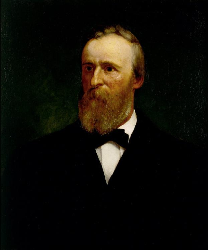 Rutherford B. Hayes Artist Eliphalet Frazer Andrews, 11 Jun 1835 - 19 Mar 1915 Sitter Rutherford Birchard Hayes, 4 Oct 1822 - 17 Jan 1893 Date 1881 Type Painting Medium Oil on canvas Dimensions Stretcher: 77.2 × 64.1 × 2.2cm (30 3/8 × 25 1/4 × 7/8") Frame: 99.7 x 87.6 x 12.7cm (39 1/4 x 34 1/2 x 5") Credit Line Current Owner: National Gallery of Art Website: Current Owner: Corcoran Gallery of Art Website: Object number L/NPG.1.92 Exhibition Label Republican presidential hopeful Rutherford B. Hayes went to bed on election night of 1876 thinking that he had lost the contest. But charges of ballot-tampering led to prolonged investigations of the vote count in several states. Out of this inquiry, itself marked by backstairs chicanery, Hayes finally emerged triumphant by a single electoral vote. All of the irregularities surrounding his election led some to view Hayes as "His Fraudulency." But questions about his legitimate right to office did not prevent this former Ohio governor from being an effective chief executive. He was responsible for ending the harsh policies that had been imposed on the South since the Civil War, and he instituted the first significant steps toward curbing rampant corruption in the civil service. Hayes's portraitist, Eliphalet Andrews, was the founding director of Washington, D.C.'s Corcoran School of Art. Data Source Catalog of American Portraits See more items in Catalog of American Portraits Exhibition America's Presidents (Temporary Installation) On View NPG, West Gallery 250